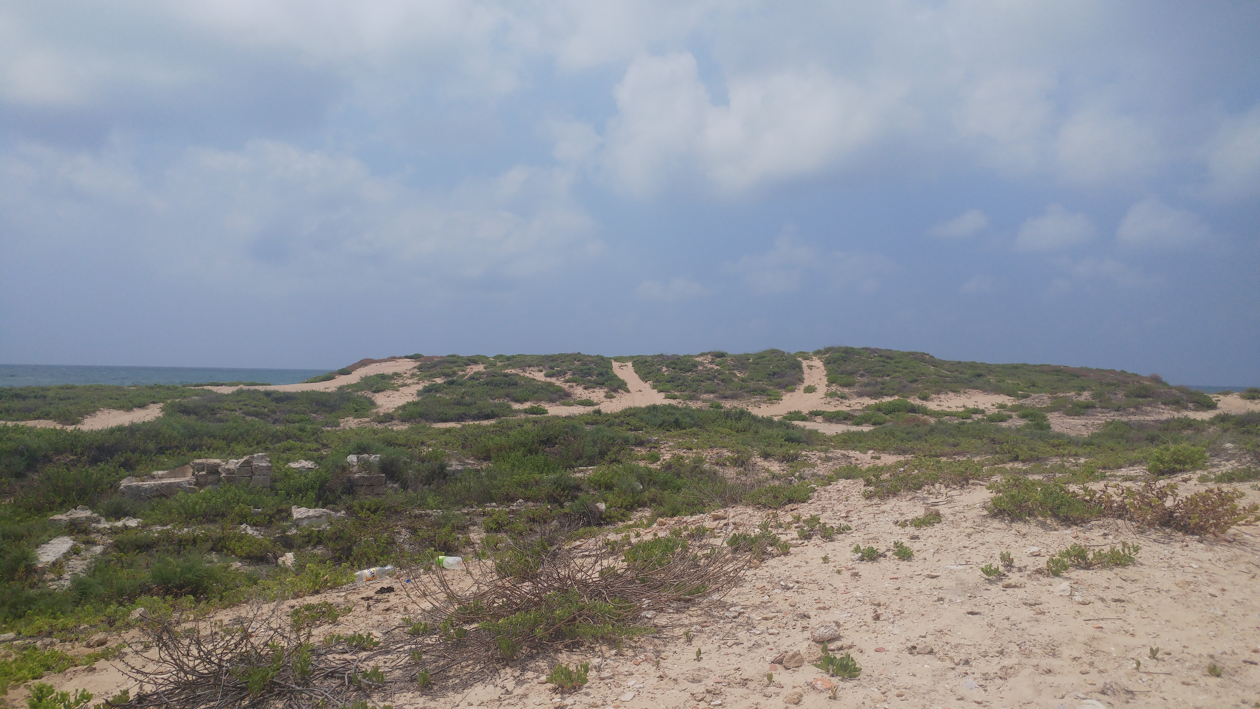 Tel Taninim (Crocodilopolis) on the Taninim stream estuary, Israel.